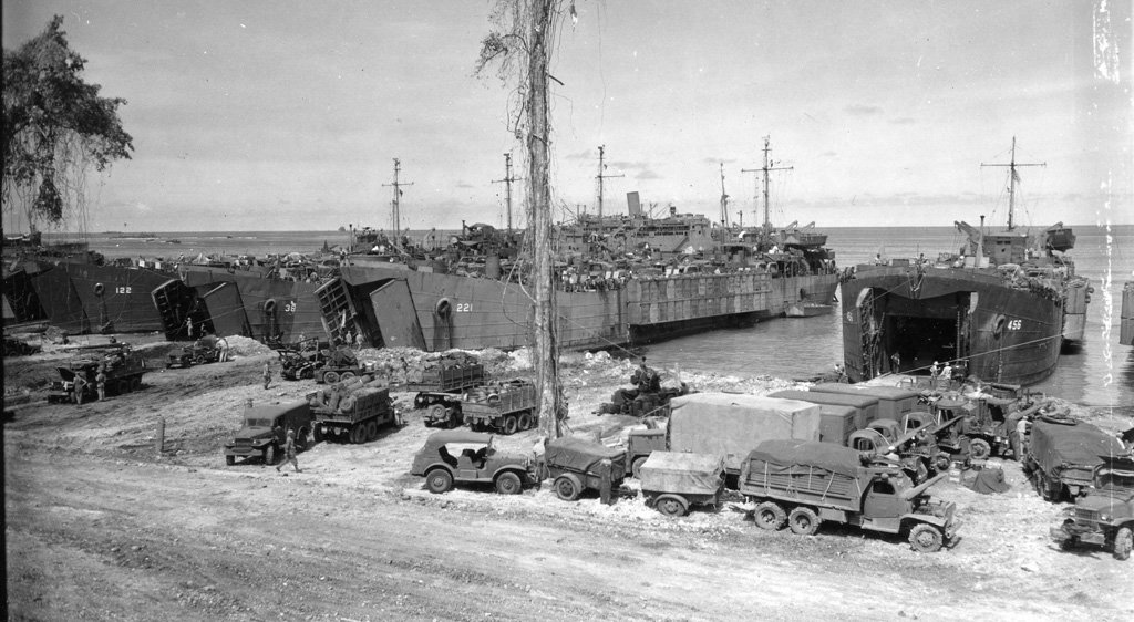 Left to Right; USS LST-122, USS LST-38, USS LST-221 and USS LST-456 beached at Finschhaven New Guinea, April 1944. US National Archives Record Group 111, Photo # SC 259917, a US Army Signal Corps photo now in the collections of the US National Archives.